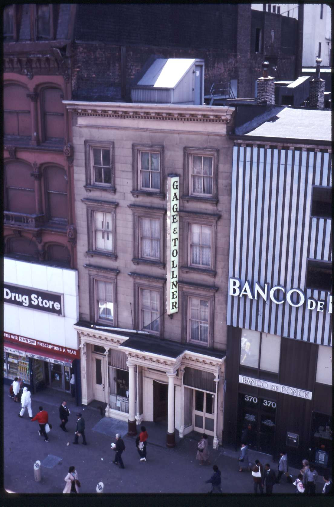 Gage & Tollner 1987, Fulton Street Brooklyn. Became an "Arby's" fast food and a discount store. Interior is landmarked but suffering over time.